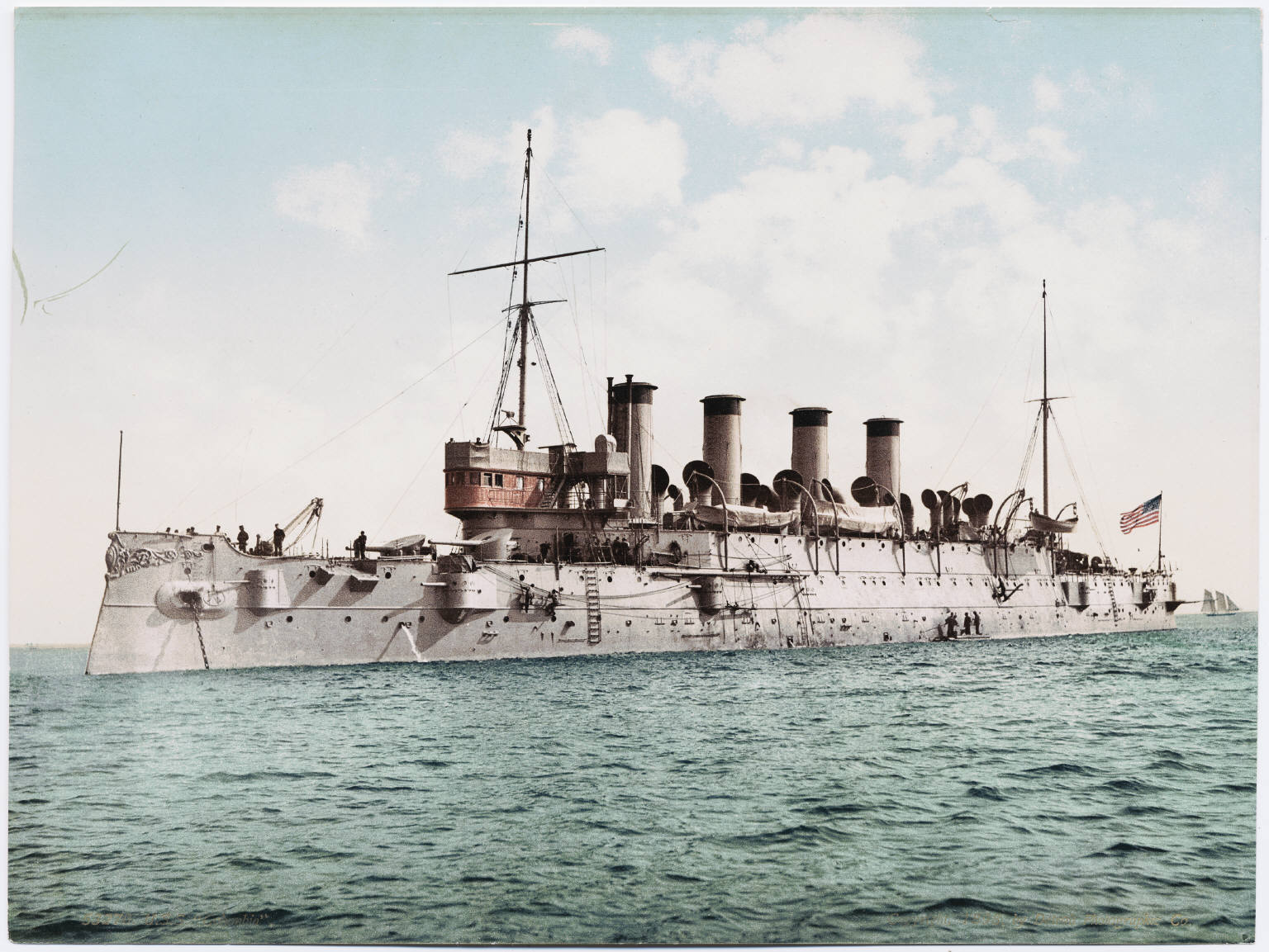 A photochrom postcard published by the Detroit Photographic Company.